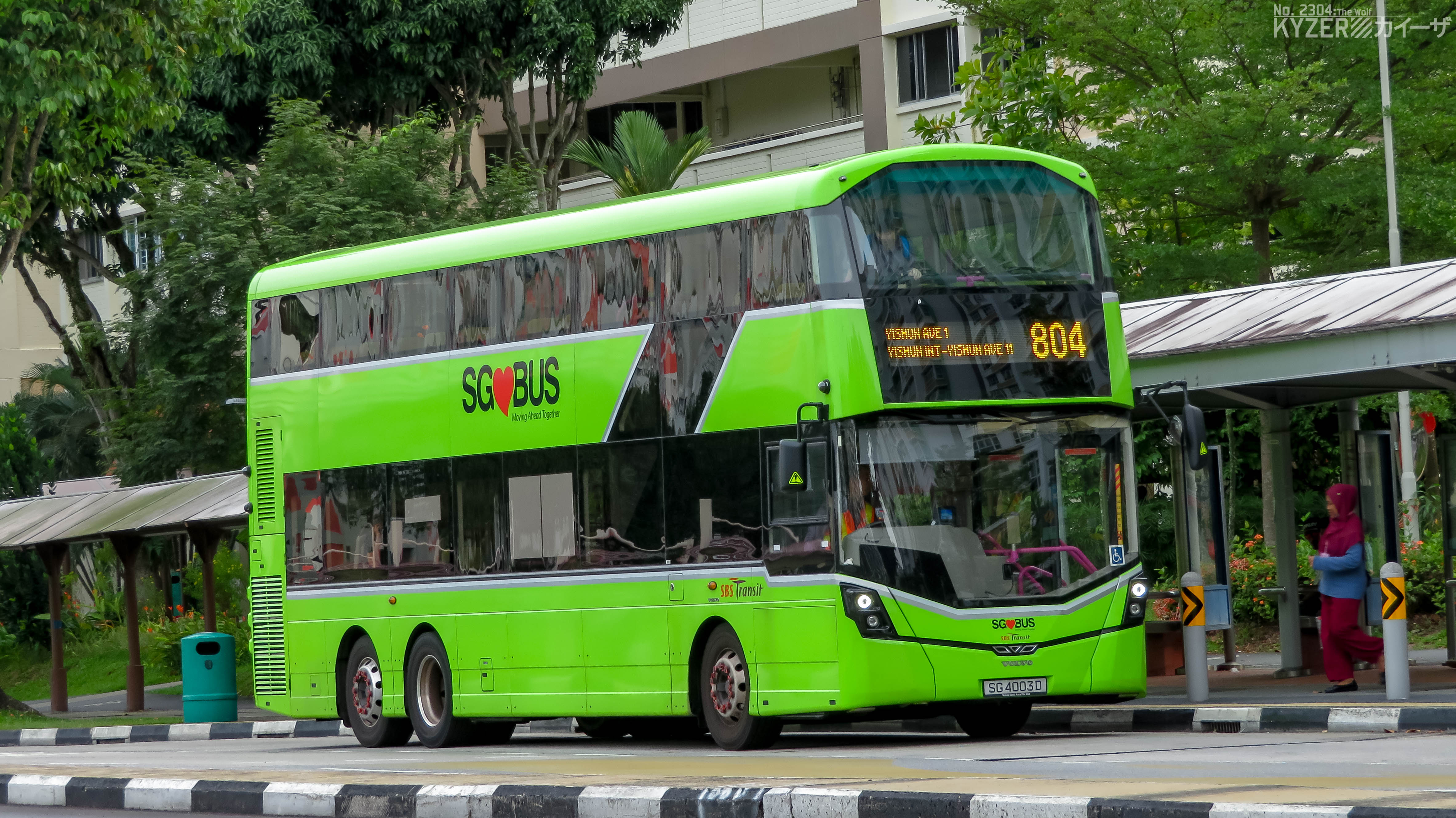 SG4003D - 804 Making a debut appearance on Yishun feeder service.